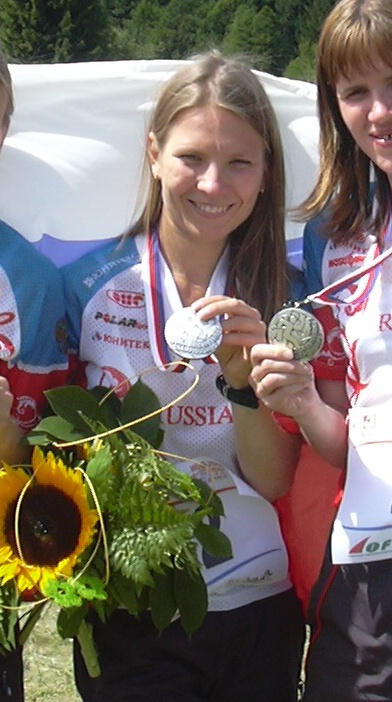 World Orienteering Championships 2008 in Olomouc, Czech Republic. On photo Julia Novikova.